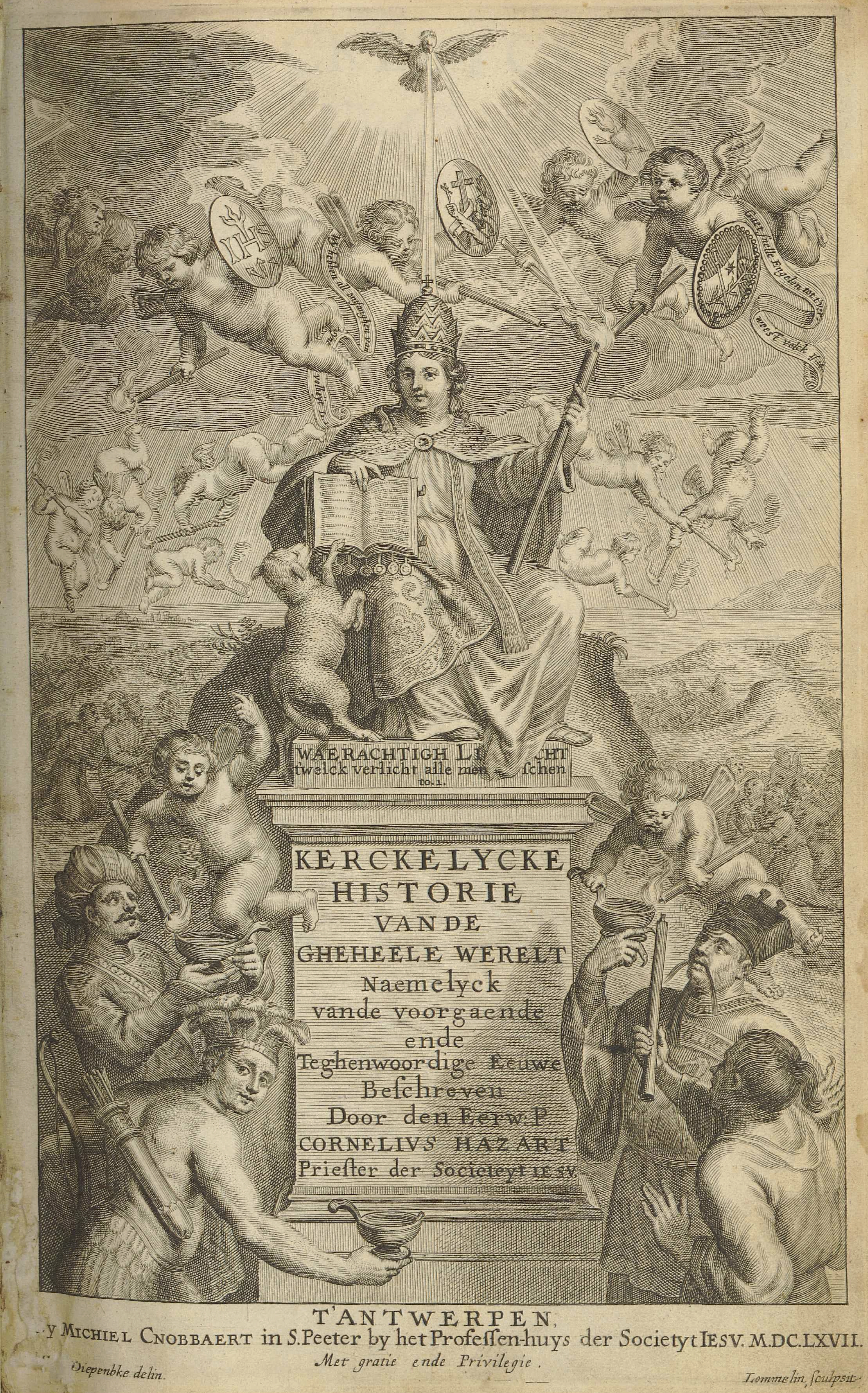 Frontispiece of the book.